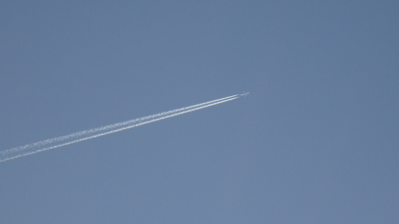 DOUBLE ENGINE PLANE IN SKY OF RCSS.中文（台灣）: 通過松山機場上空的雙引擎國際線客機飛行雲。